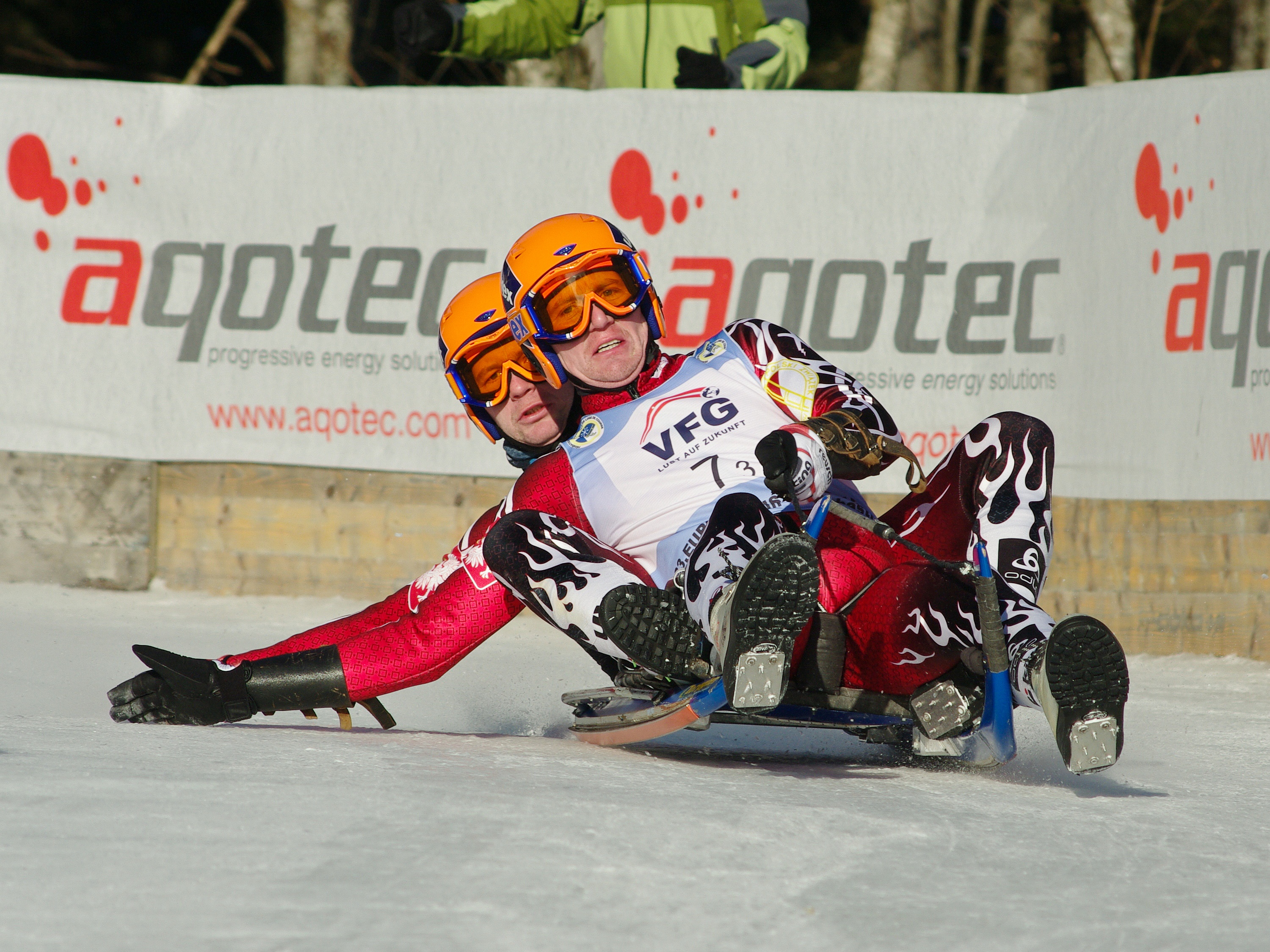 Polish natural track lugers Andrzej Laszczak (front) and Damian Waniczek (back) at the FIL European Luge Natural Track Championships 2010 in St. Sebastian, Austria.